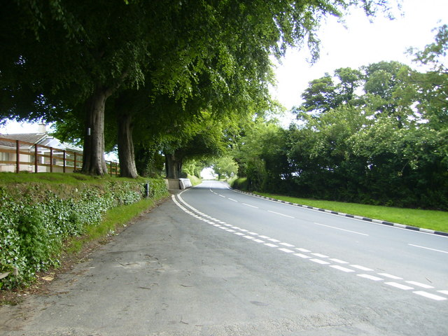 The TT Course from Hillberry heading back into Douglas